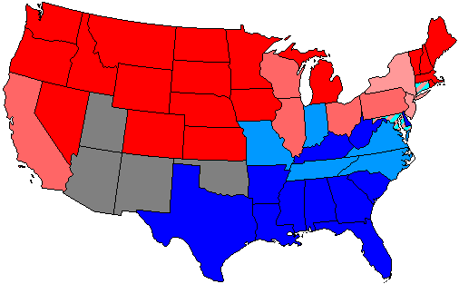 Summary of party control of U.S. house seats in the 51st United States Congress following election. Stripes indicate a tie between two or more parties. Legend: 80.1-100% Democratic seat majority 60.1-80% Democratic seat majority 60% or less Democratic seat plurality 60% or less Republican seat plurality 60.1-80% Republican seat majority 80.1-100% Republican seat majority